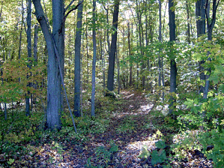 Taken myself.